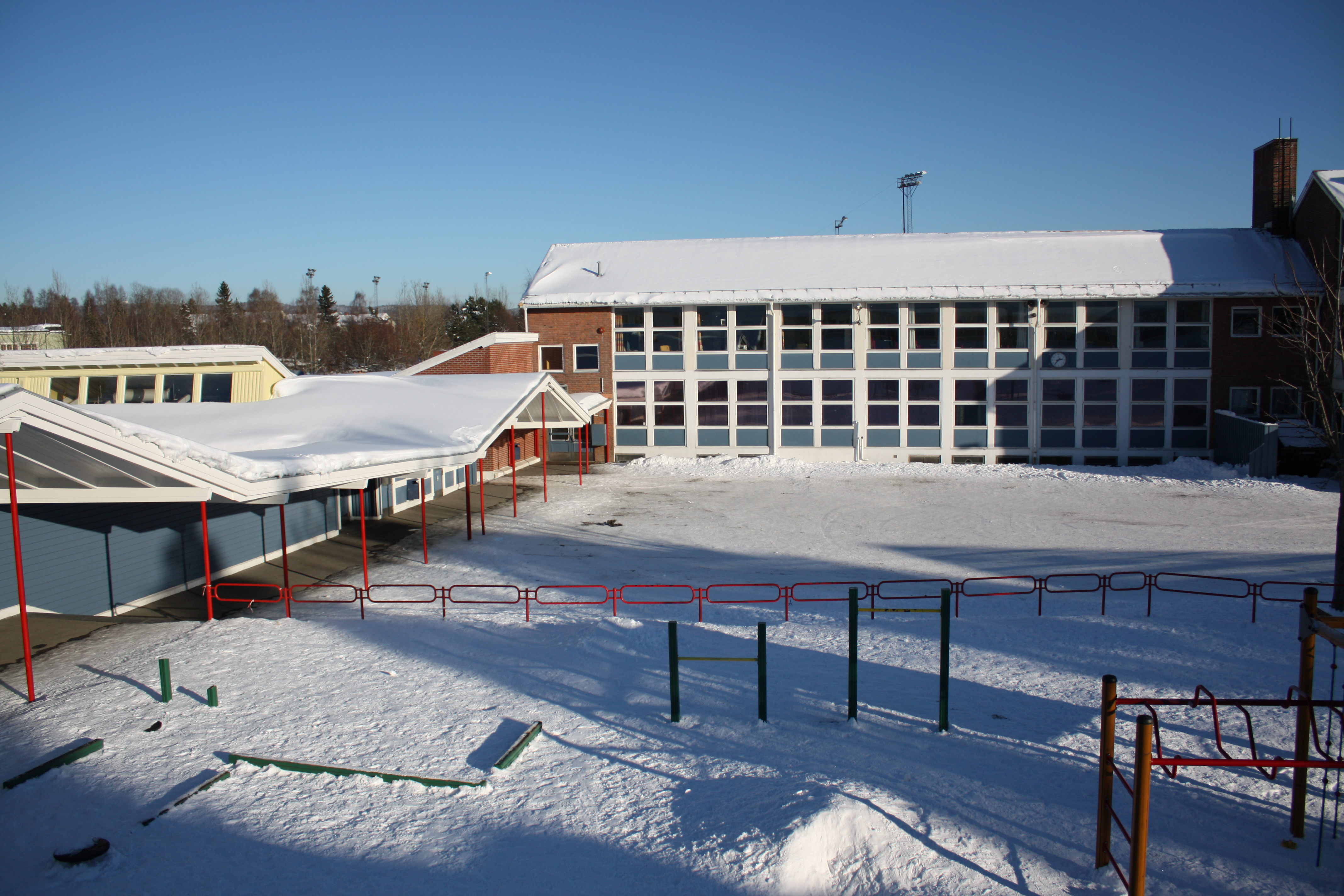 Image of Lambertseter skole